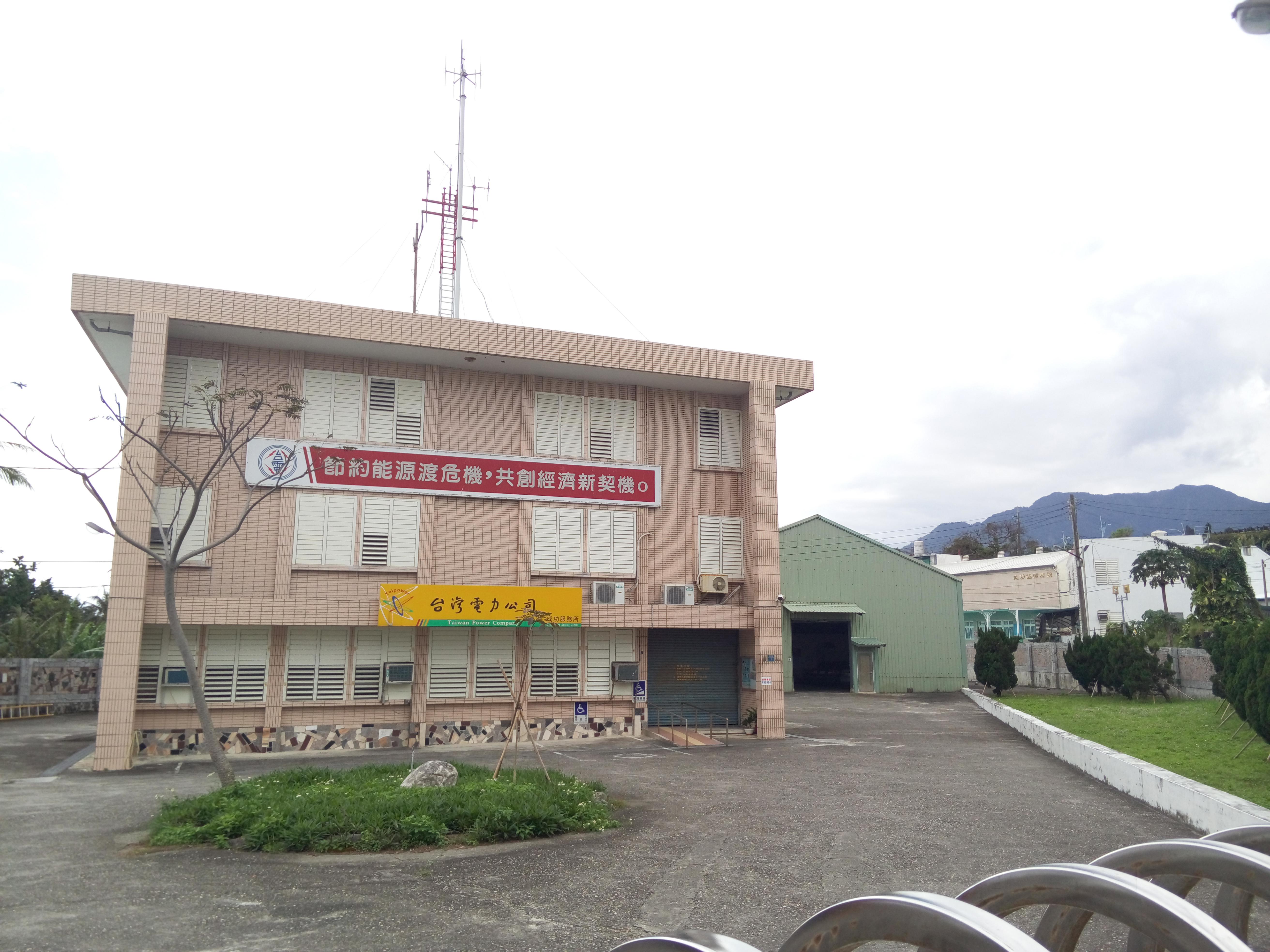 Chenggong Fossil-fuel power station